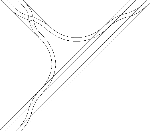 A double track wye (railroad).